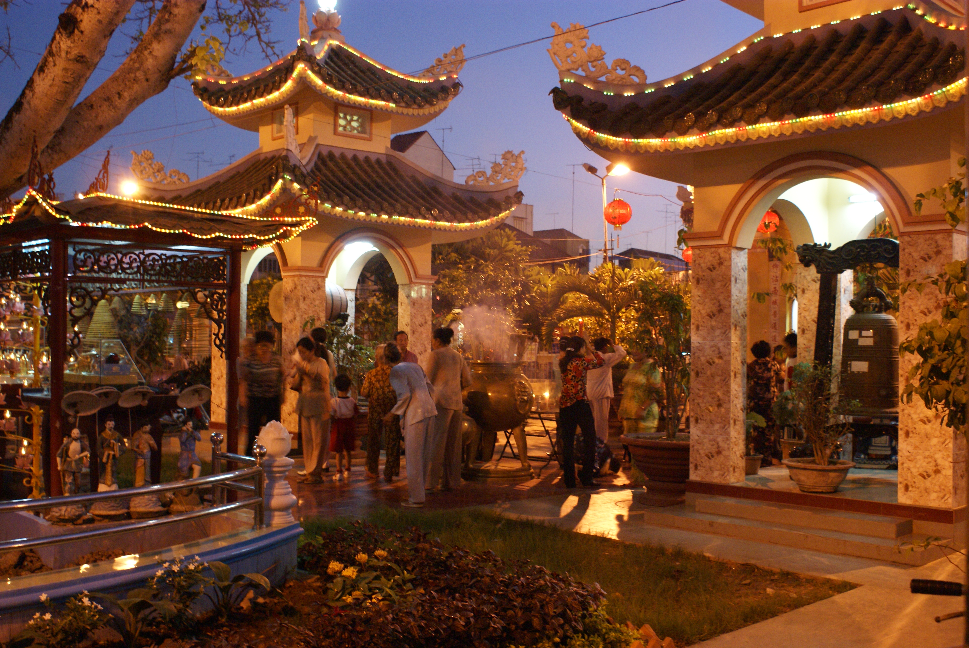 Tet festivities at a pagoda in Chau Doc, Vietnam, 2007.